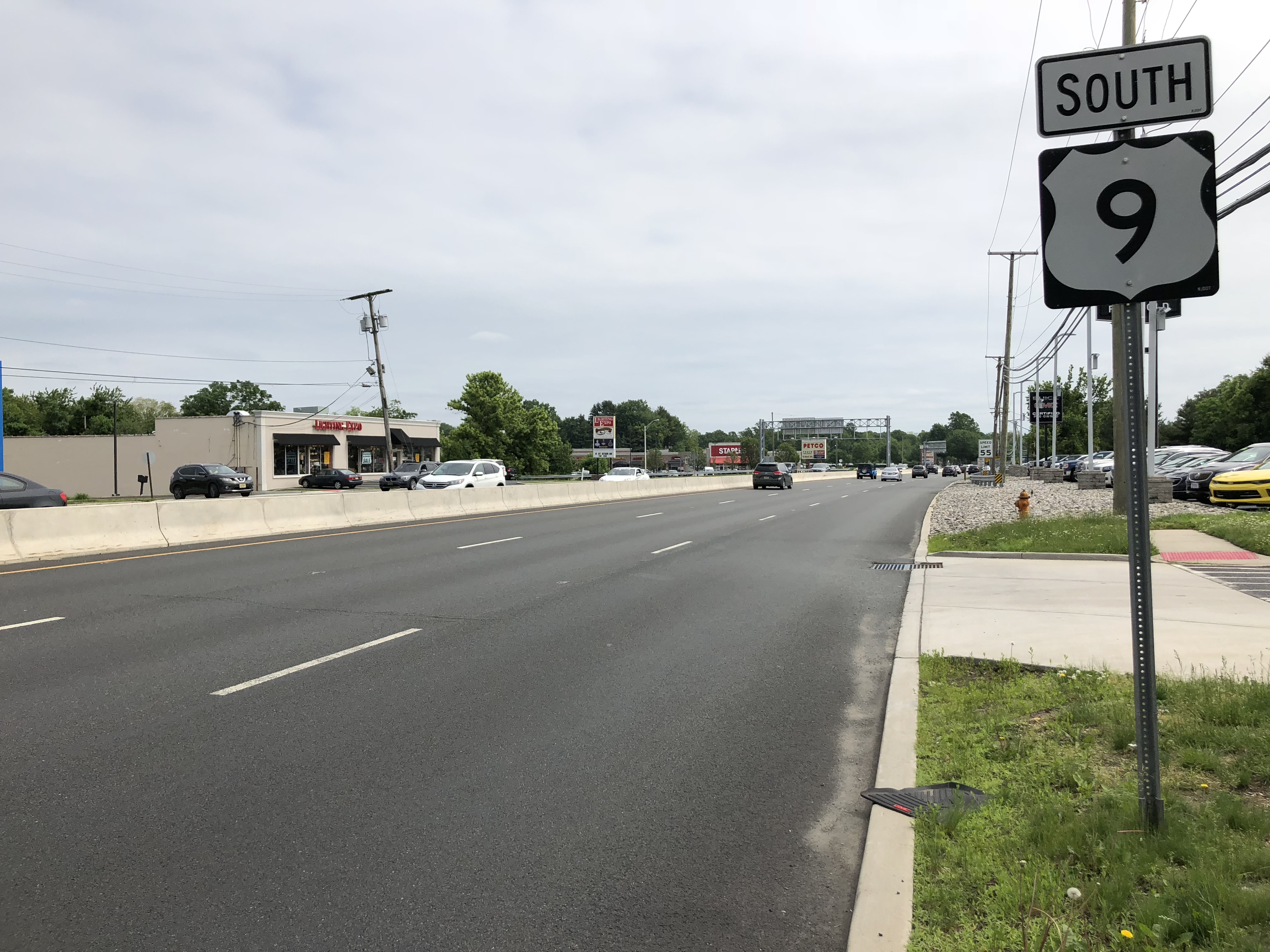 View south along U.S. Route 9 at Craig Road/East Freehold Road in Freehold Township, Monmouth County, New Jersey